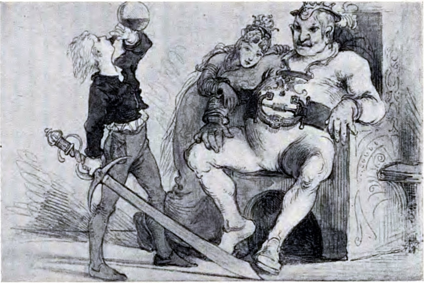 Illustration by Carl Larsson of the book "Folksagor" by Asbjörnsen and Moe, Stockholm 1927